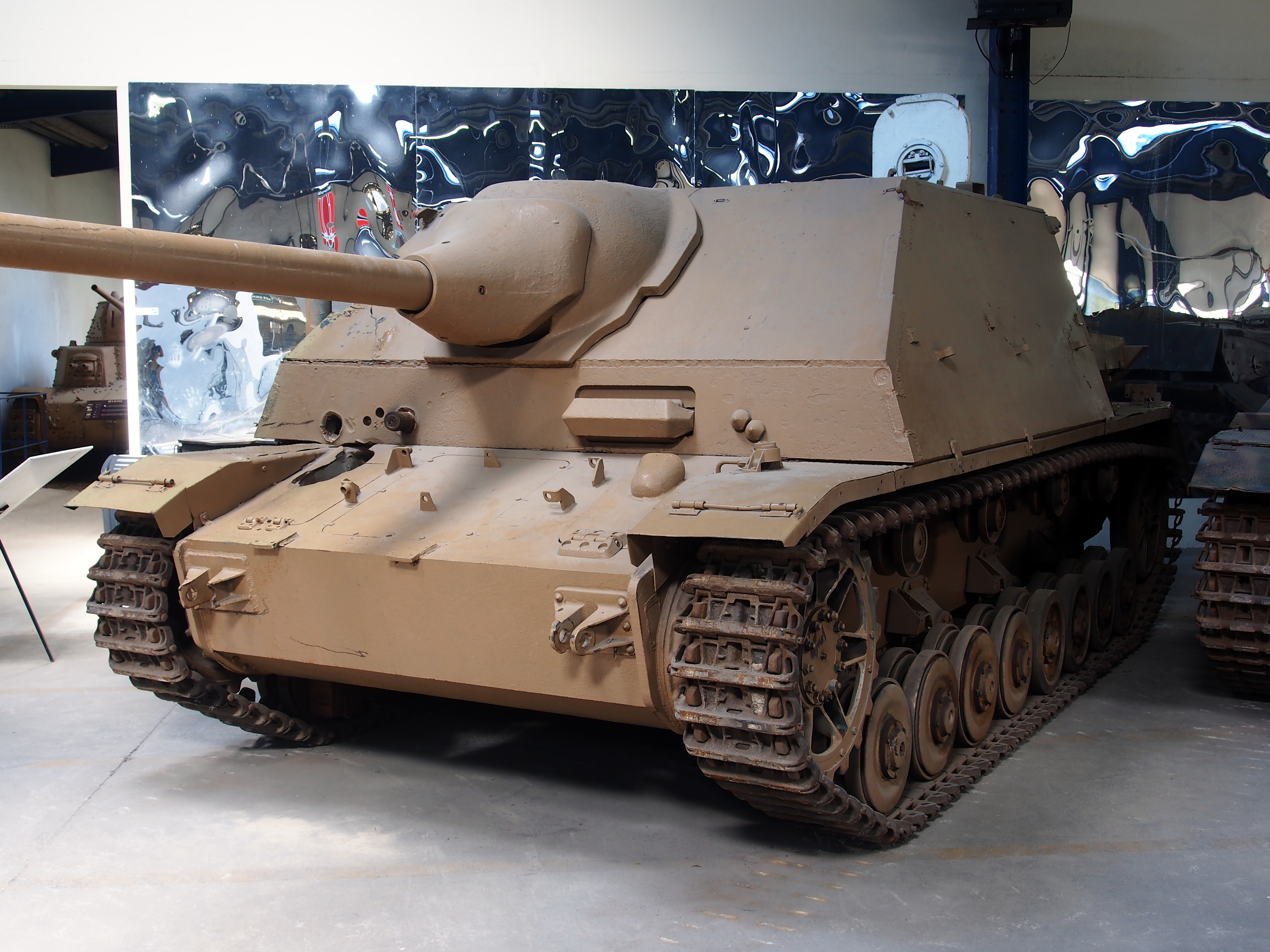 Photographed in the Musée des Blindés, France.